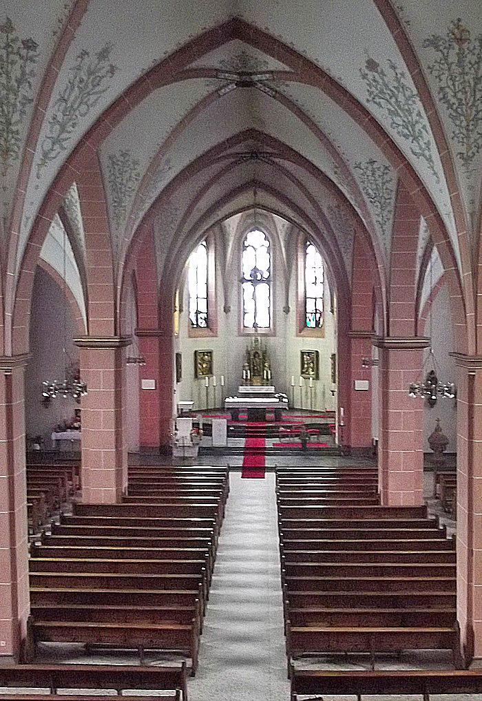 Interior of the roman catholic church in Oberthal, Saarland